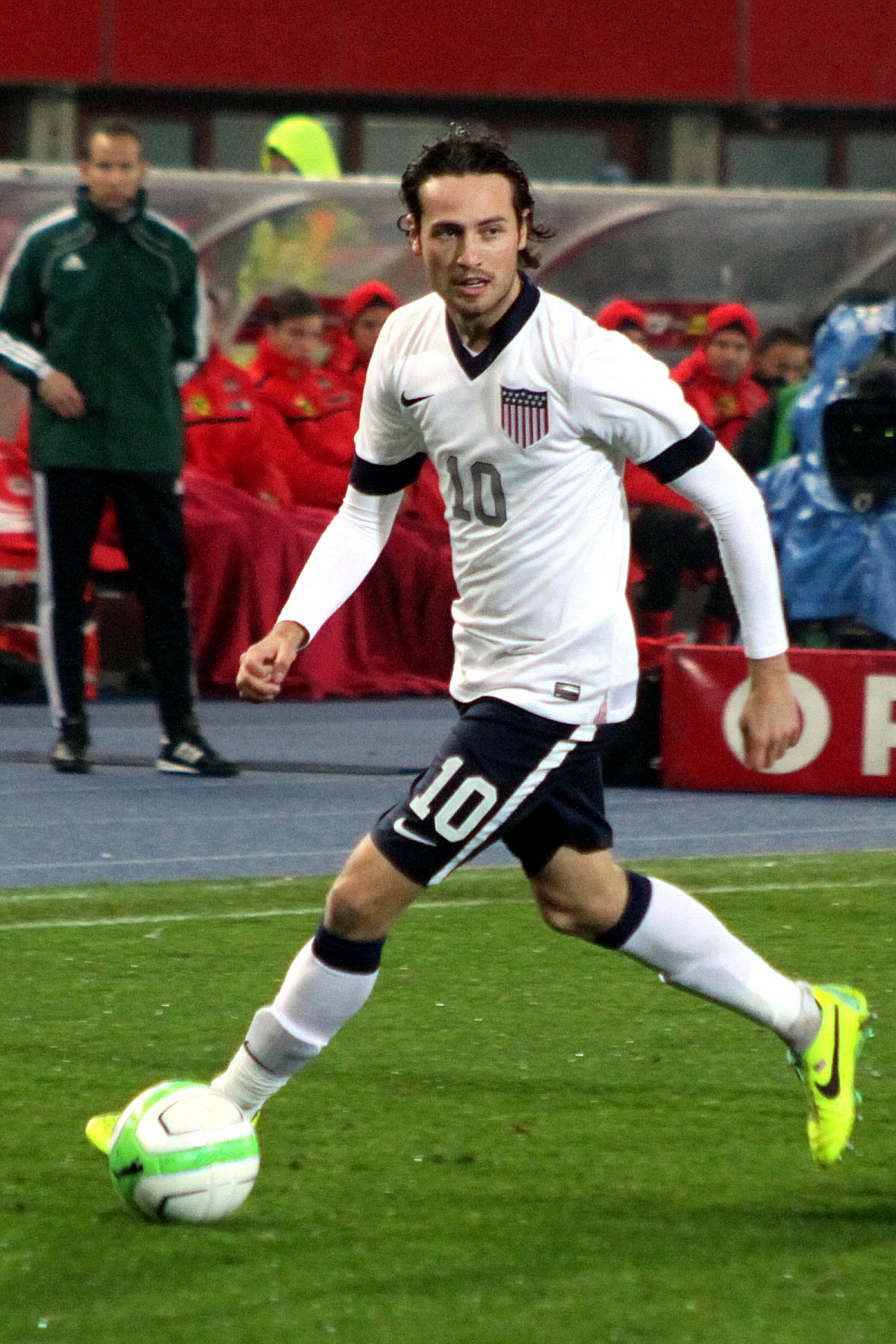 Friendly-match Austria vs. USA (1:0) in the Ernst-Happel-Stadion in Vienna at 2013-03-22. – The photo shows .